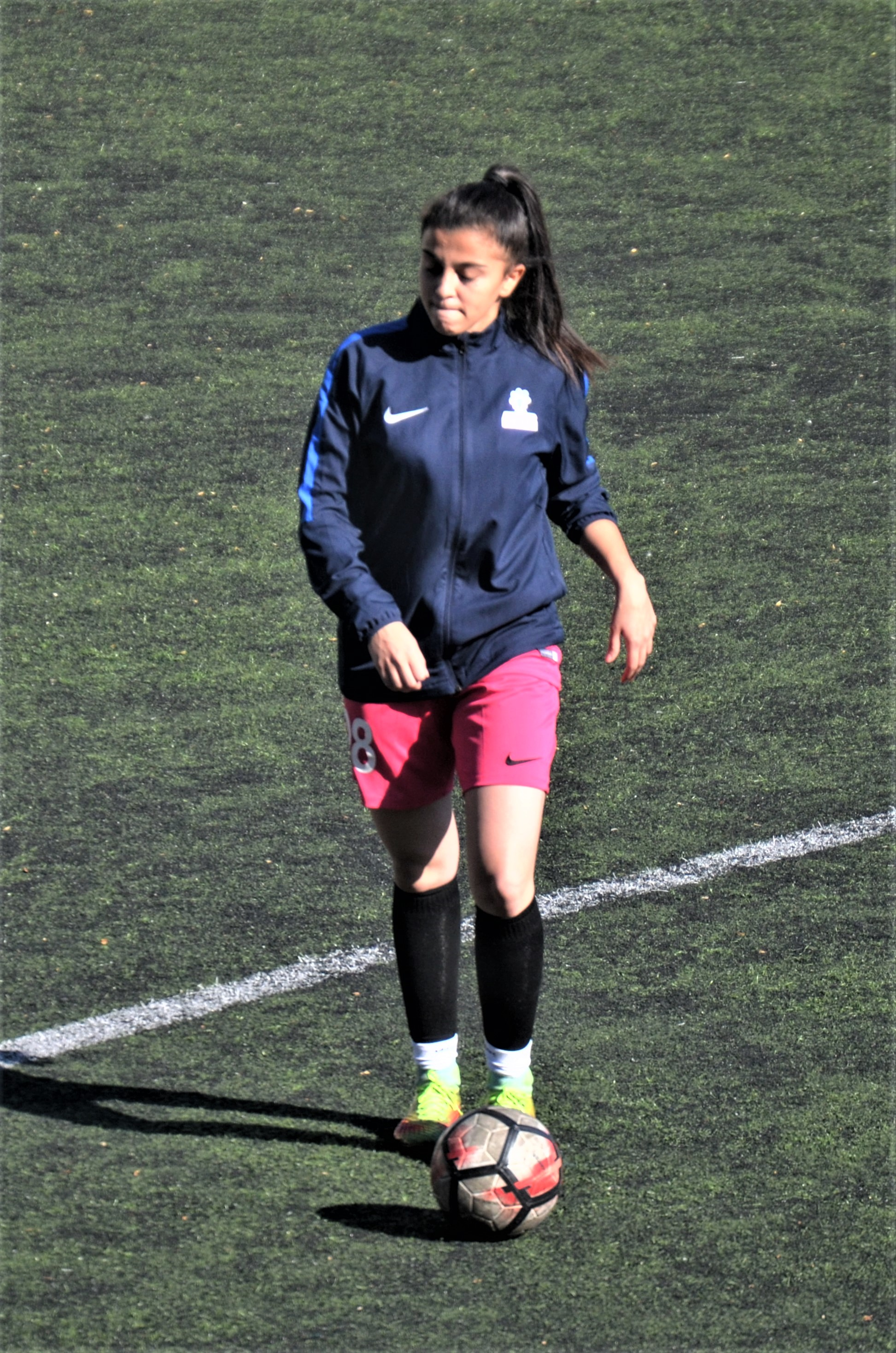 Cansel Gözüaçık warming up for Ataşehir Belediyespor in the 2018-19 Turkish Women's First Football League.